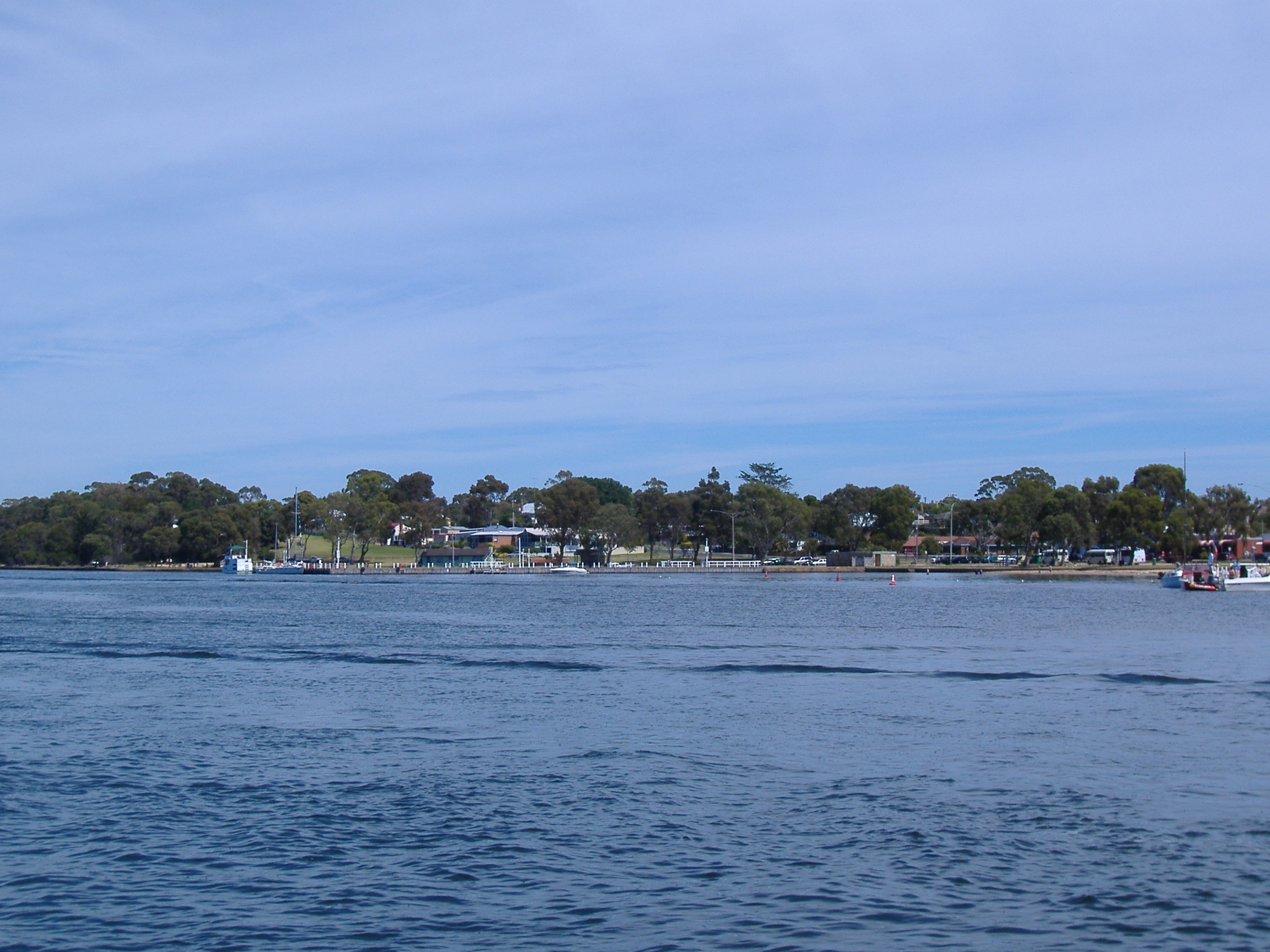 A view taken from the water overlooking Paynesville, Victoria.